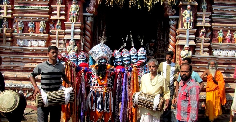 Sahi Yatra of Puri, Odisha